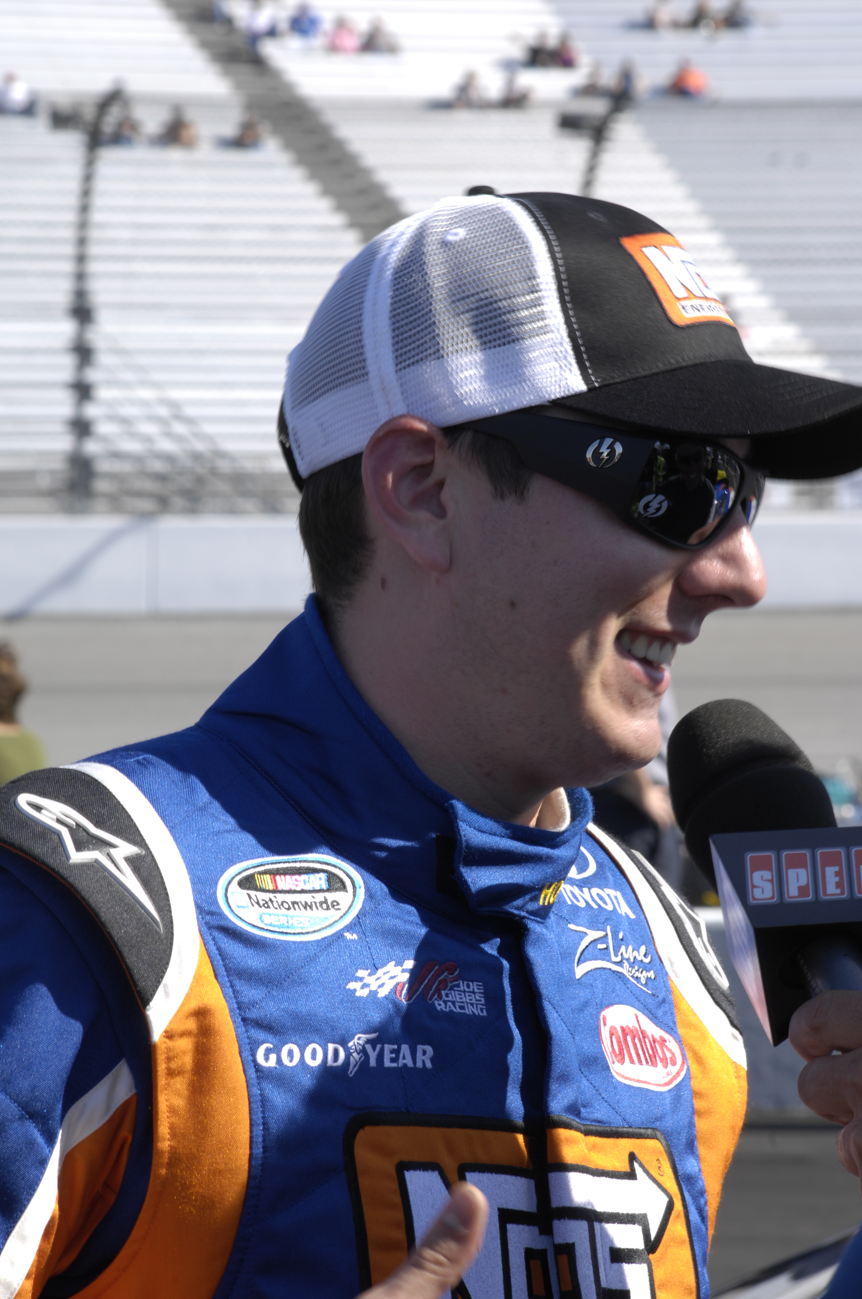 Kyle Busch after winner the Heath Calhoun 400 on April 30, 2010